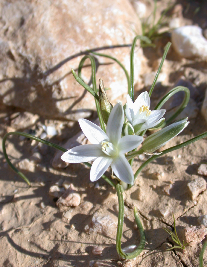 Ornithogalum trichophyllum Boiss. & Heldr. (נץ-חלב דק-עלים), Negev Mountains, Israel, March 2, 2007.